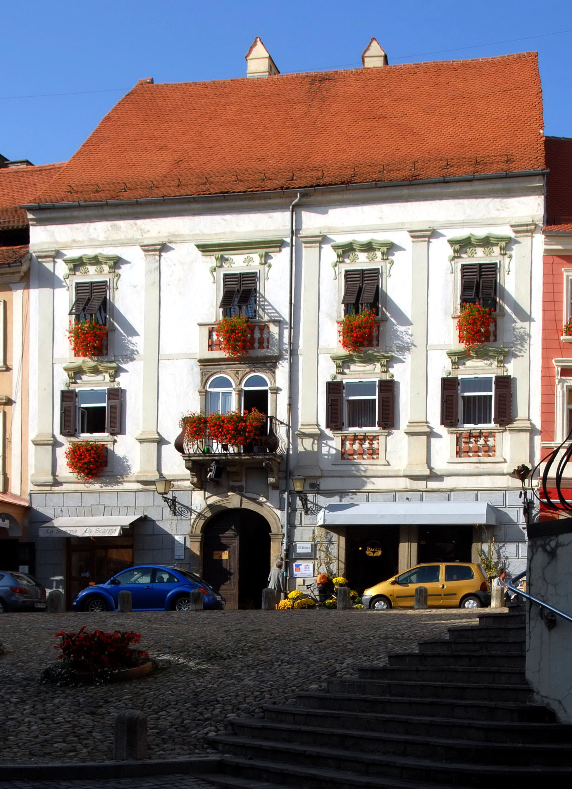 The Old Town Hall of Ptuj (Slovenija) with its highly decorated Baroque facade was the seat of the town authorities until the beginning of the 20th century.